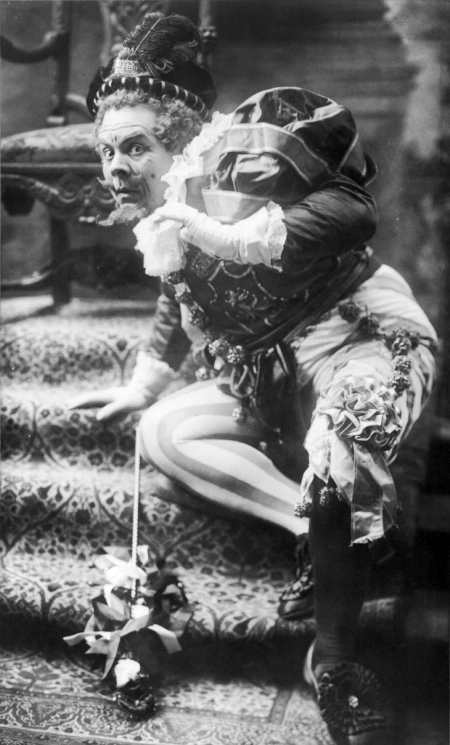 Mario Sammarco in costume, full-length, facing left